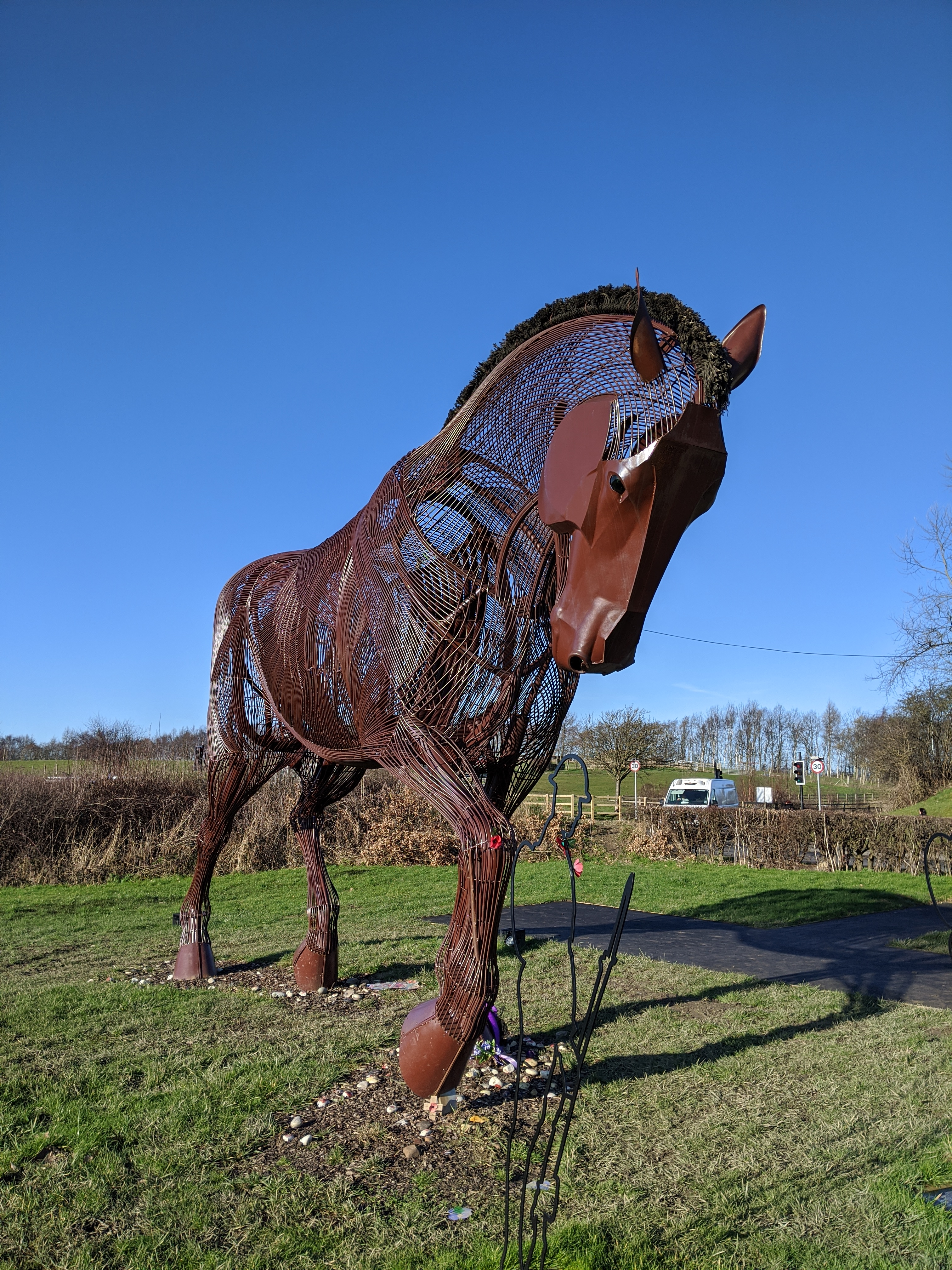 War Horse, by sculptors Cod Steaks, commemorates the 353 soldiers from Featherstone who gave their lives in WWI.